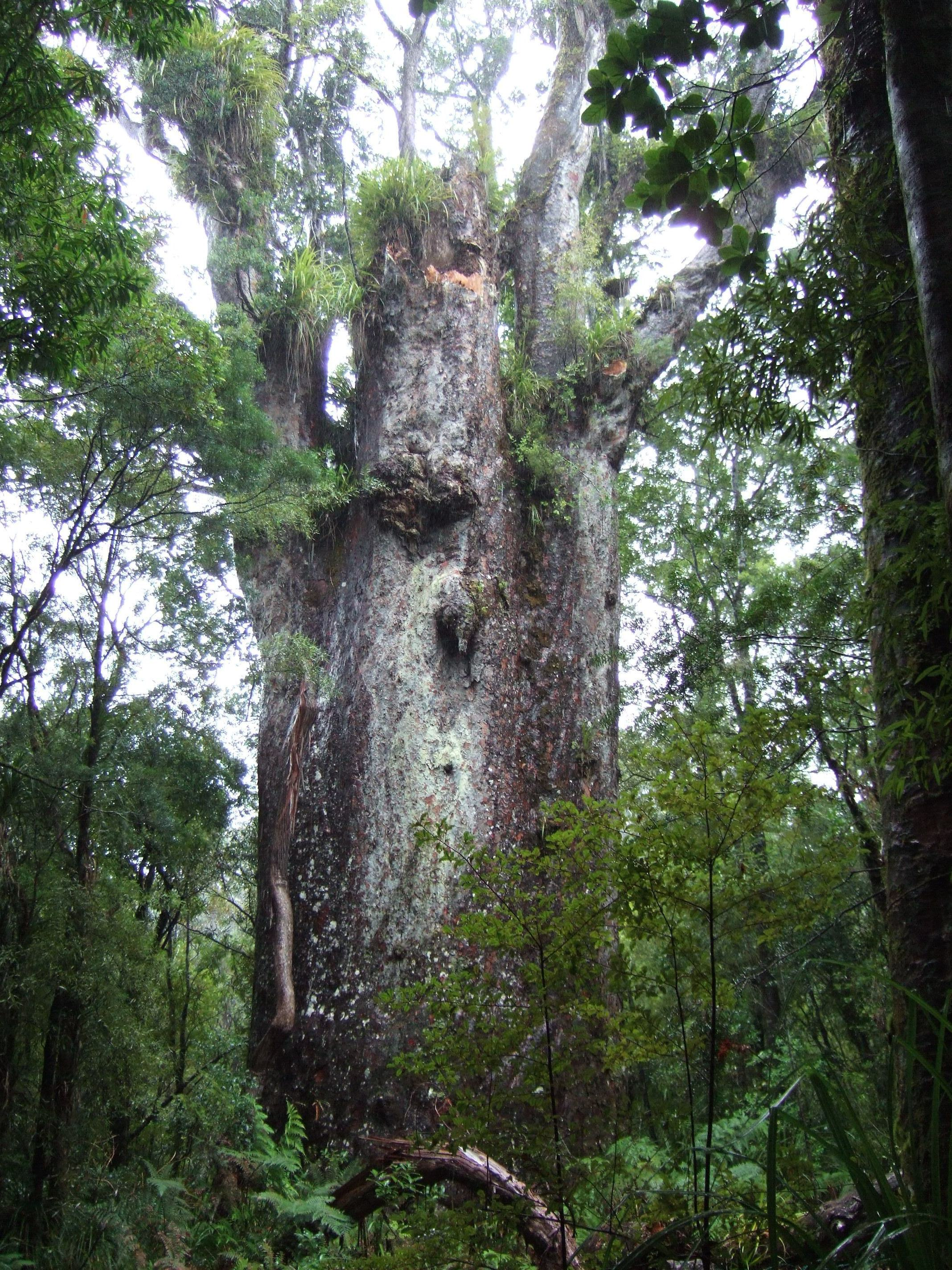 The kauri tree Te Matua Ngahere in New Zealand showing the 2007 storm damage. (Photo taken in February 2008)